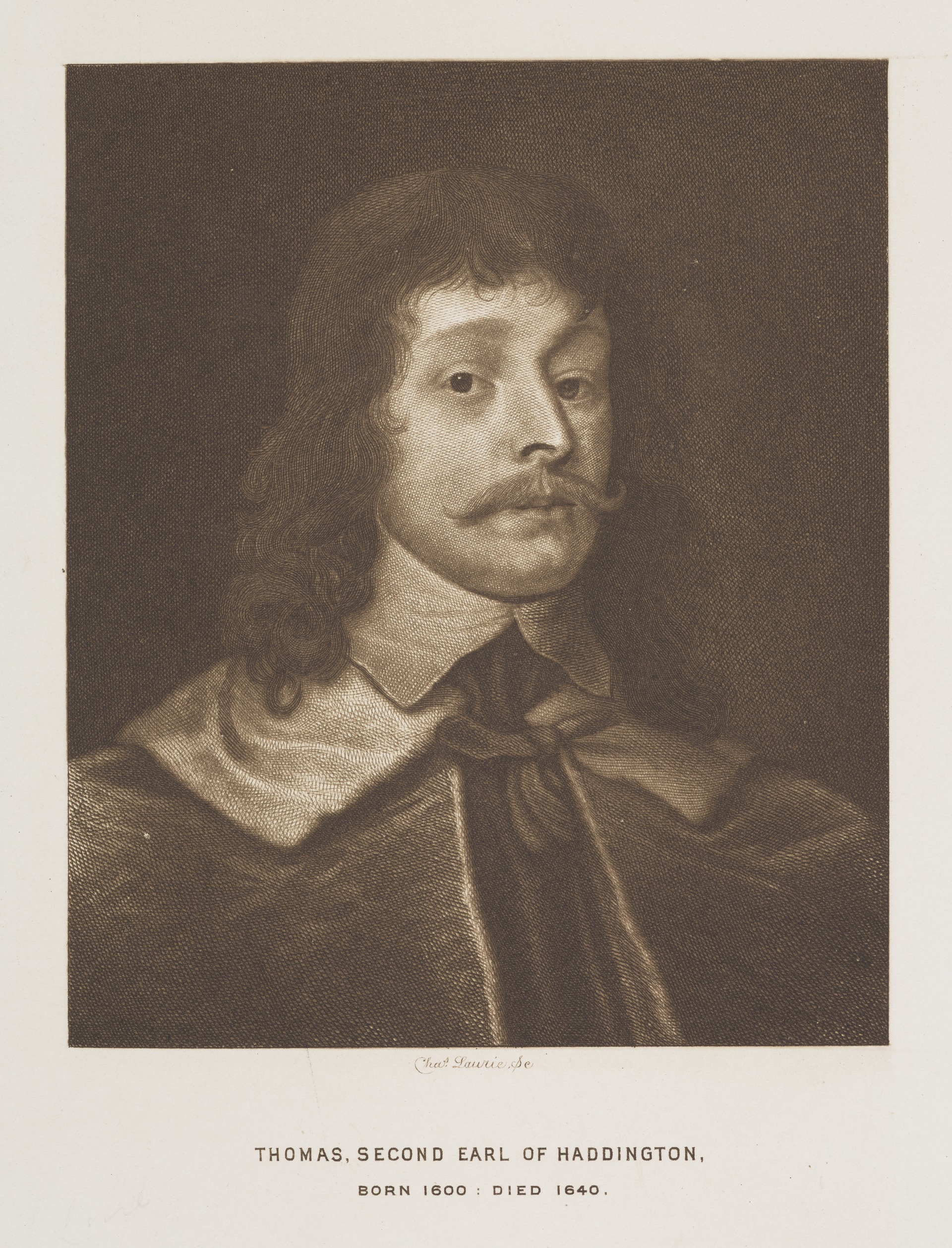 Charles Laurie Thomas Hamilton, 2nd Earl of Haddington, 1600 - 1640. Covenanter